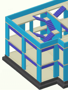 Part of a building created using Advance Concrete